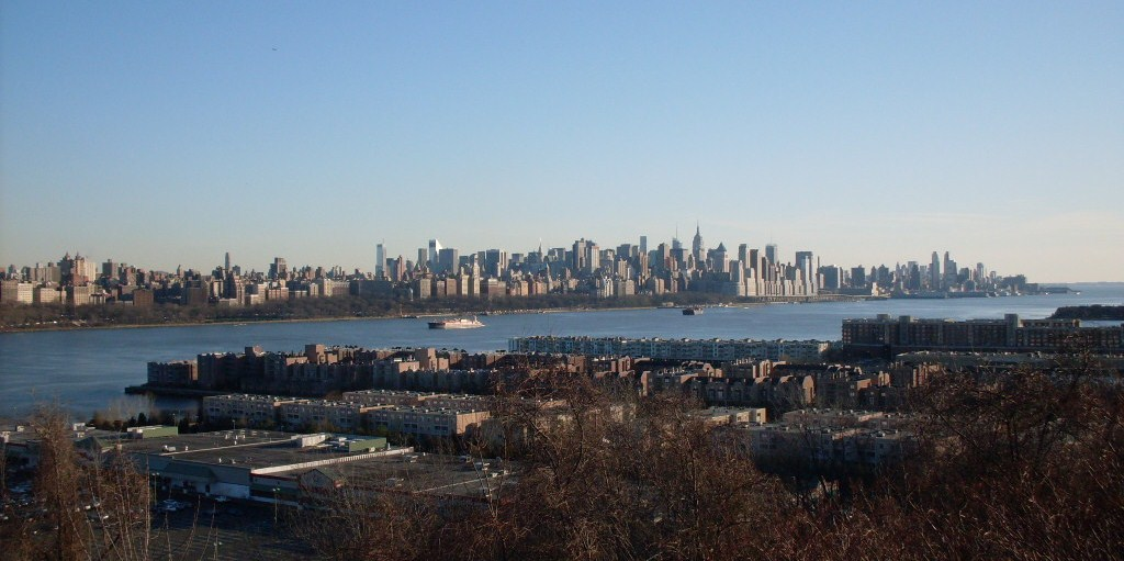 View of development in south Edgewater, NJ with Hudson River and Manhattan in background.